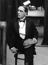 Arthur Maude in 1916 at Flying "A" Studios in Santa Barbara